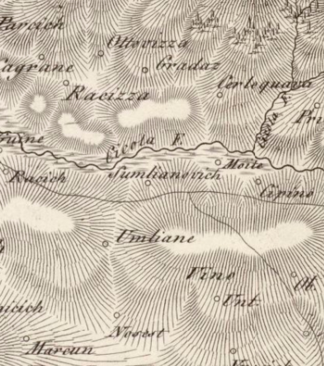 Section of 1810. map, made by Maximillian de Traux, showing village of Umljanovići.